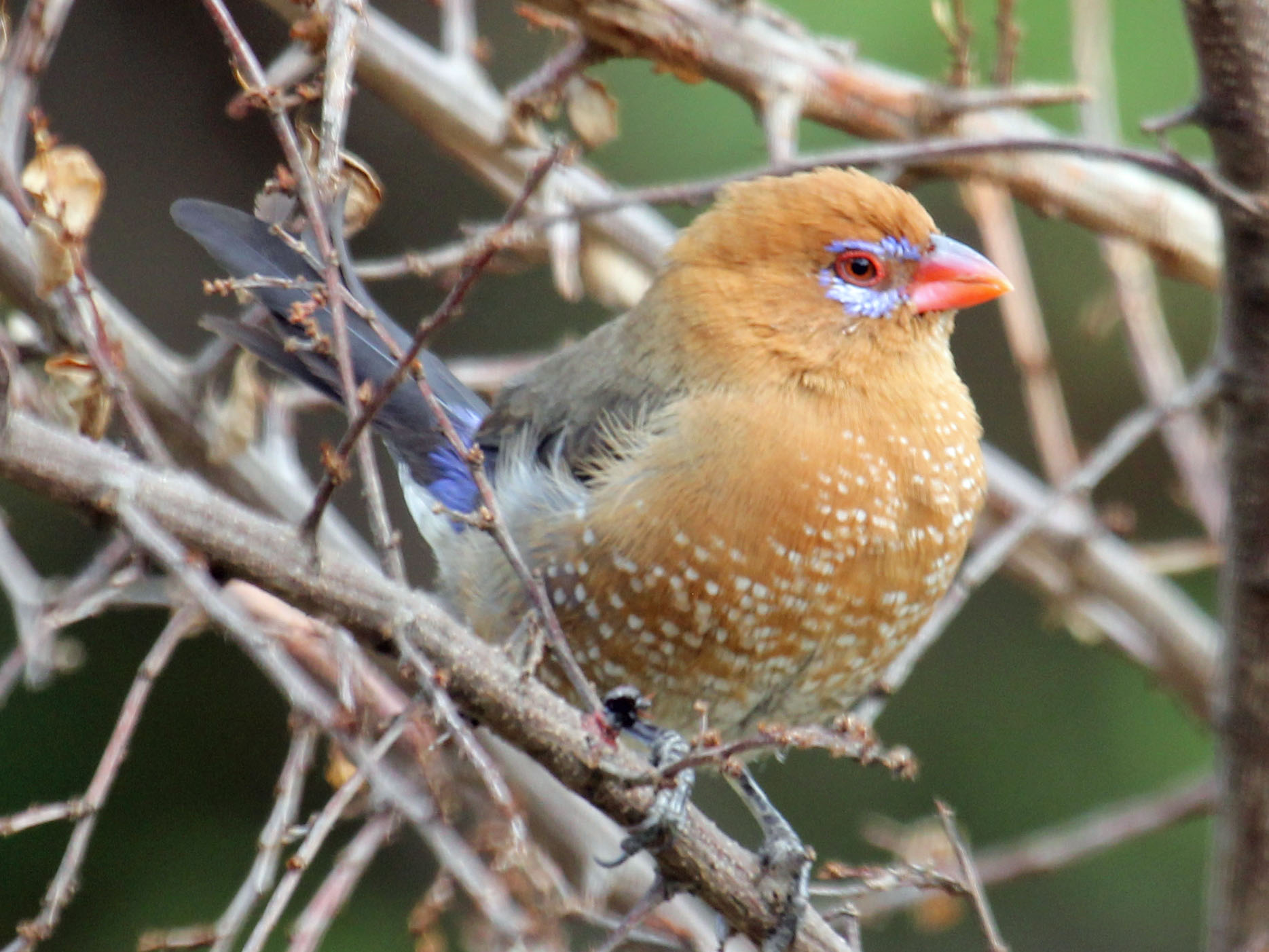 Female Purple Grenadier (Uraeginthus ianthinogaster) - Keekorok Lodge in the Masai Mara, Kenya